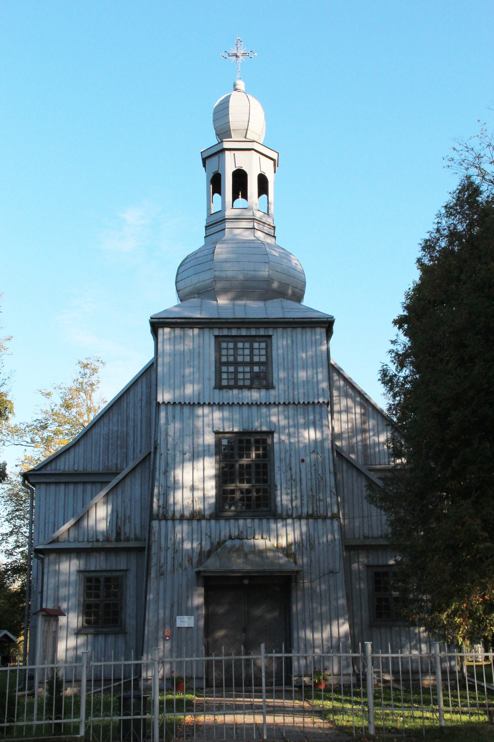 Saint Thomas Becket church in Targowisko, Poland